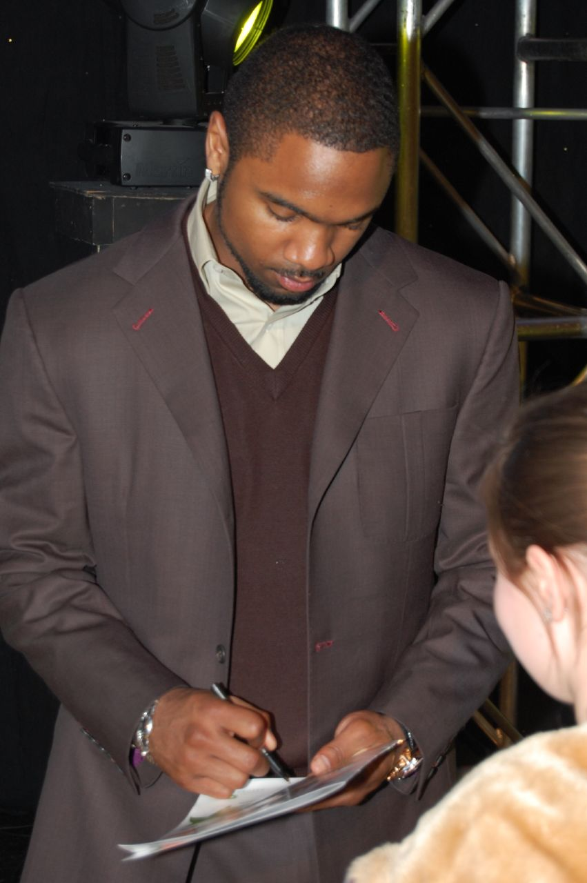 Charles Woodson signing an autograph